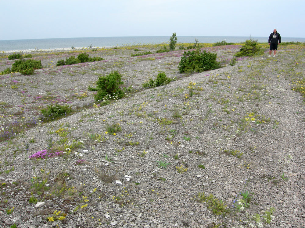 Northern coast of Saaremaa, Estonia.